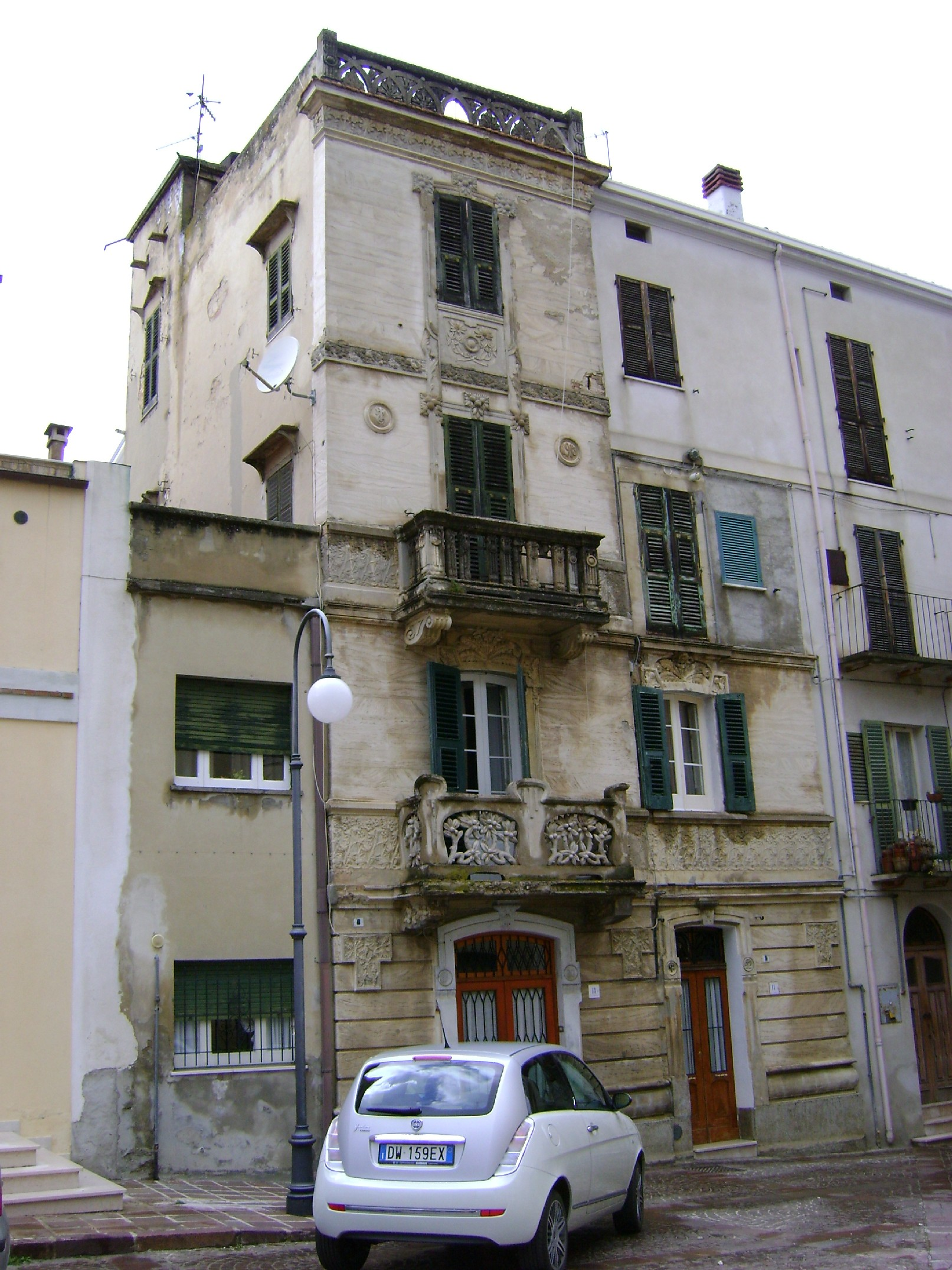 A palace in Caporali square in Castel Frentano, province of Chieti.